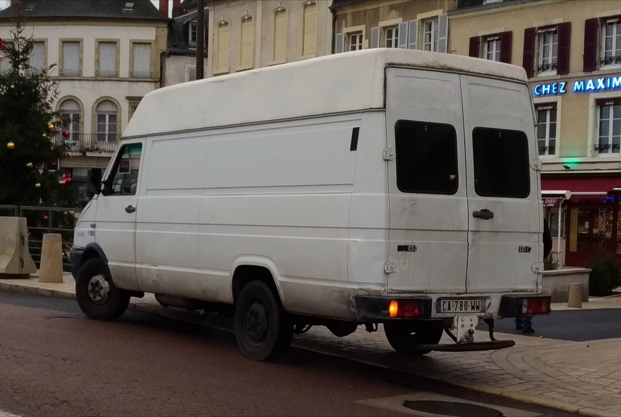 1991 Iveco Daily (2.5 D 75 hp) at Decize